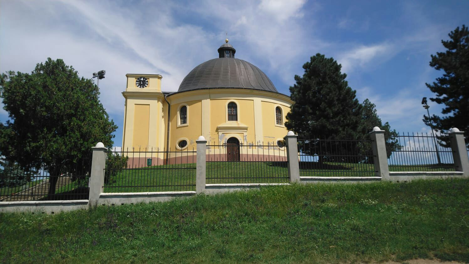 Chapel of Peace (Sremski Karlovci)